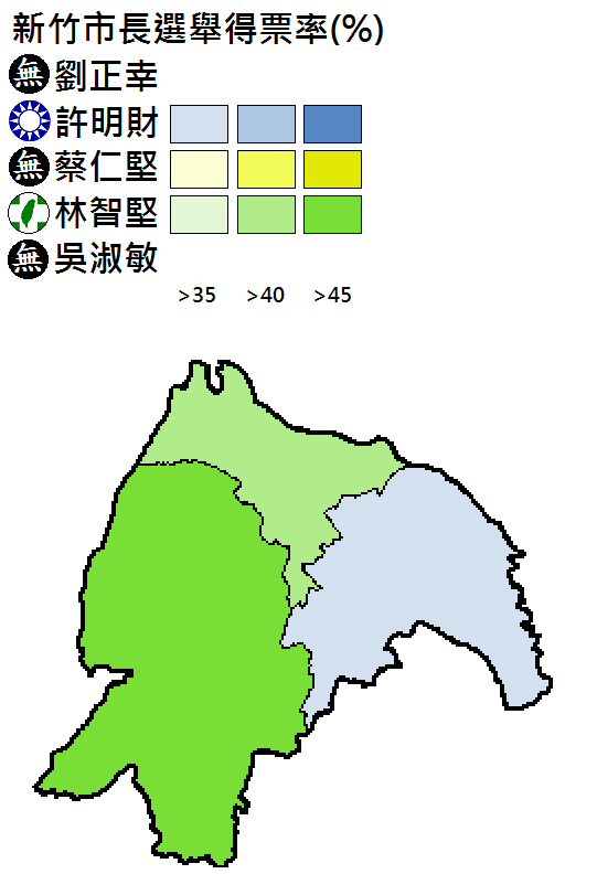 Hsinchu provincial 2014